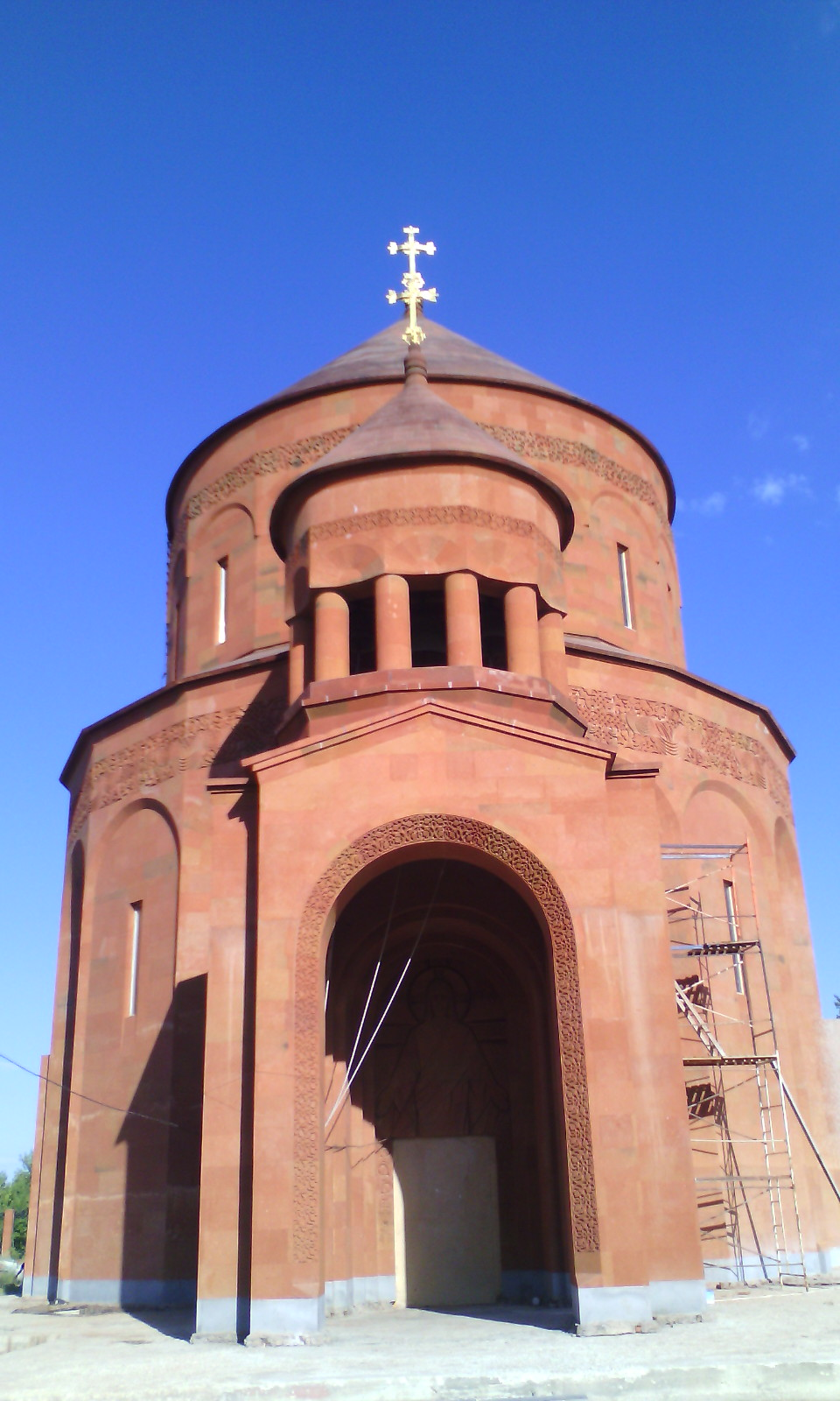 The church and the bell tower, southern view